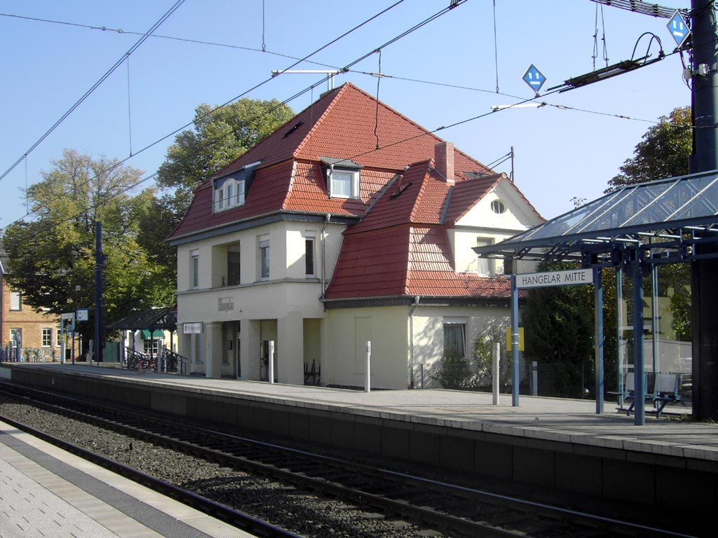 Urban railway stop Hangelar Mitte of the Siegburger Bahn in Sankt Augustin.